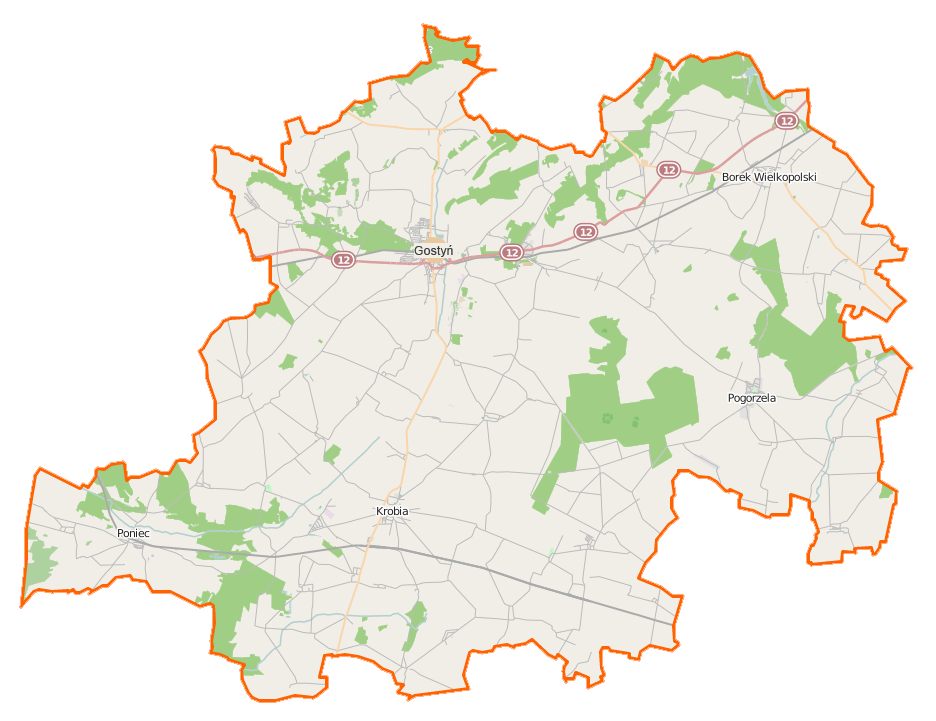 Map of Powiat gostyński, Poland This map of Powiat gostyński was created from OpenStreetMap project data, collected by the community. This map may be incomplete, and may contain errors. Don't rely solely on it for navigation. Border coordinates51.991216.7143←↕→17.357051.6845